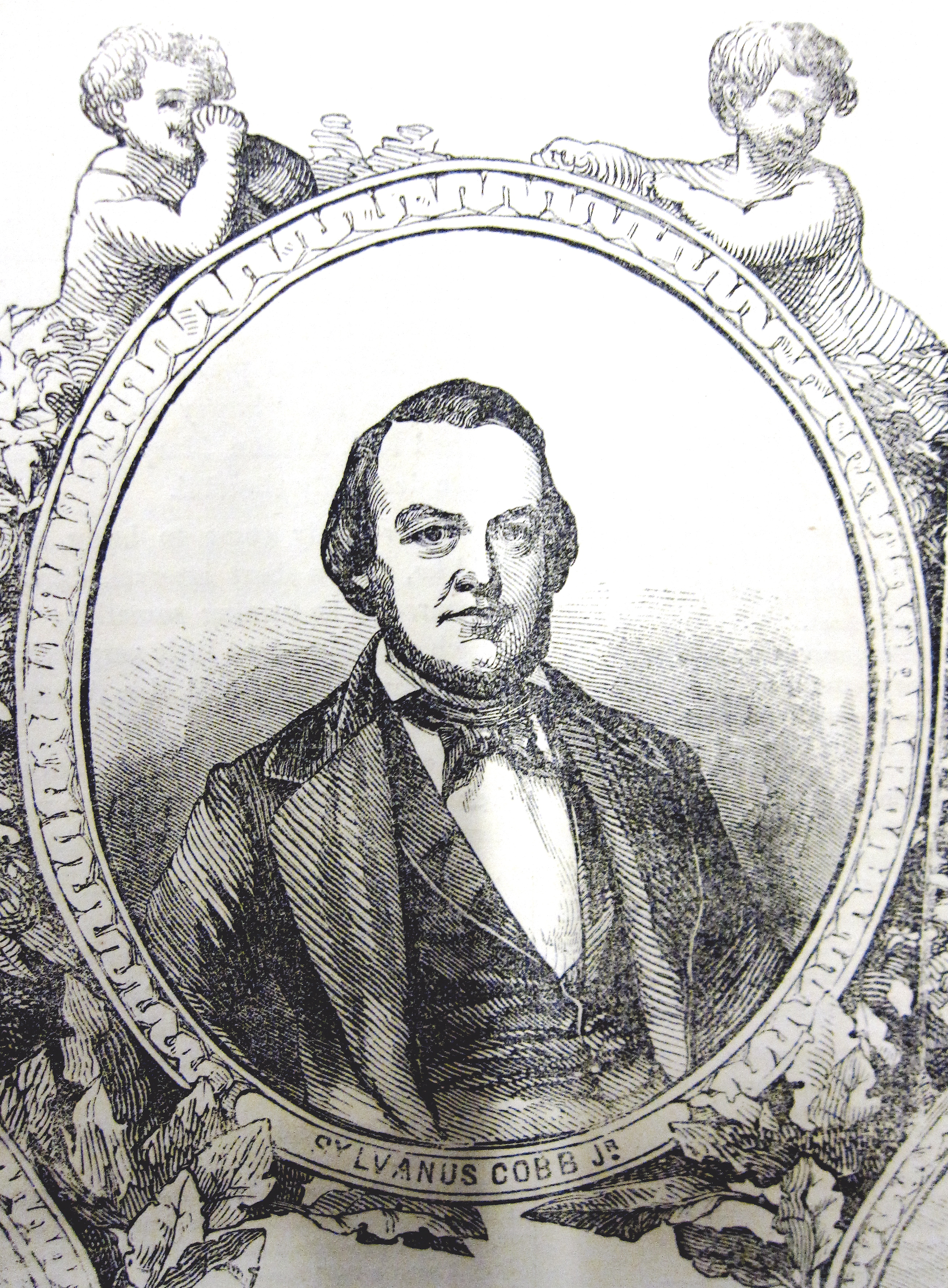 Portrait of Sylvanus Cobb, Jr., in: Gleason's Pictorial, Jan. 1852.